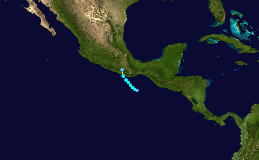 Track map of Tropical Storm Beatriz of the 1993 Pacific hurricane season. The points show the location of the storm at 6-hour intervals. The colour represents the storm's maximum sustained wind speeds as classified in the Saffir-Simpson Hurricane Scale (see below), and the shape of the data points represent the nature of the storm, according to the legend below. Saffir–Simpson scale Tropical depression≤38 mph≤62 km/h Category 3111–129 mph178–208 km/h Tropical storm39–73 mph63–118 km/h Category 4130–156 mph209–251 km/h Category 174–95 mph119–153 km/h Category 5≥157 mph≥252 km/h Category 296–110 mph154–177 km/h Unknown Storm type Tropical cyclone Subtropical cyclone Extratropical cyclone / Remnant low / Tropical disturbance / Monsoon depression